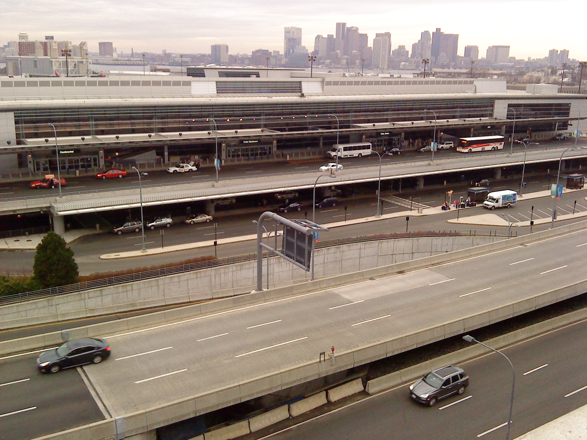 Terminal A, at Boston's Logan International Airport.